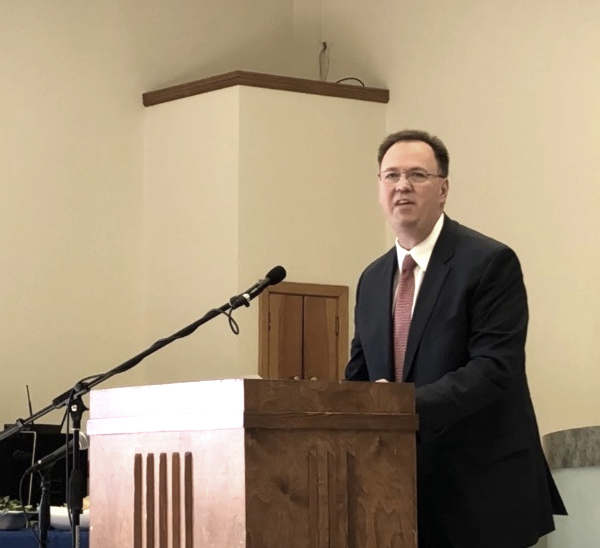 Superintendent